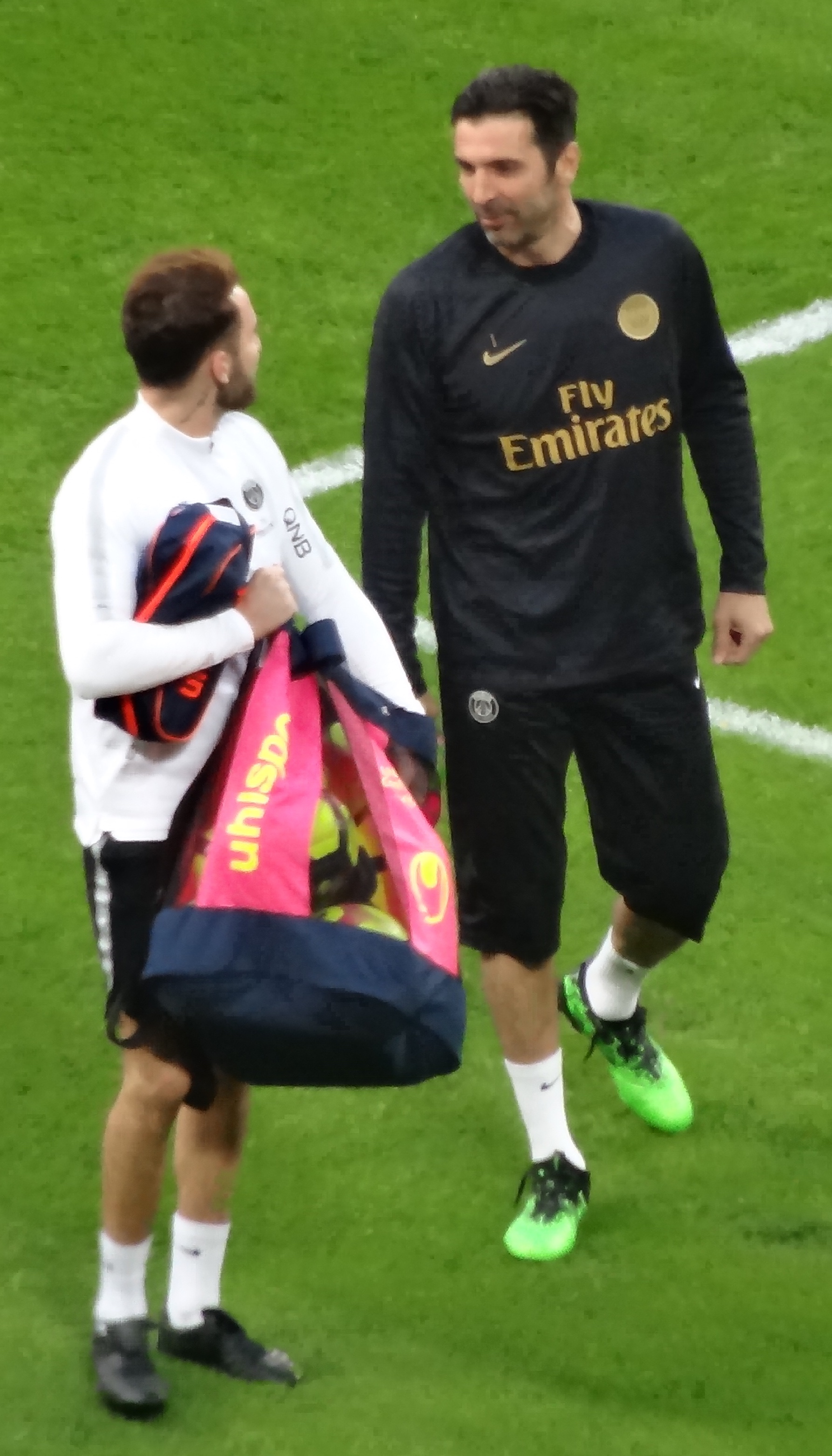 Gianluigi Buffon (PSG)